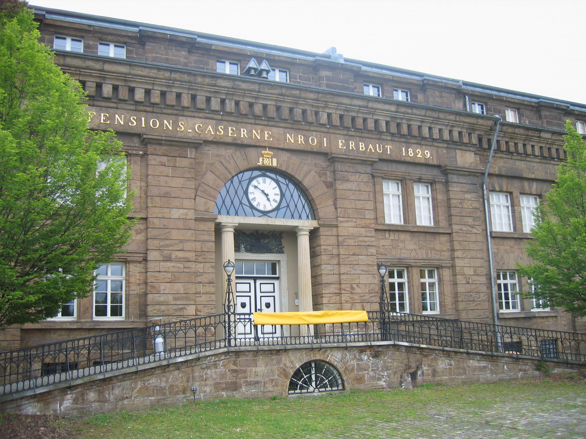 Historic Prussian barracks and museum of Prussian history in Minden, District of Minden-Lübbecke, North Rhine-Westphalia, Germany.